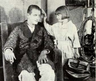 The daughter of Reginald Denny applies makeup, on the set of the American film Abysmal Brute (1923), on page 32 of the December 30, 1922 Universal Weekly.